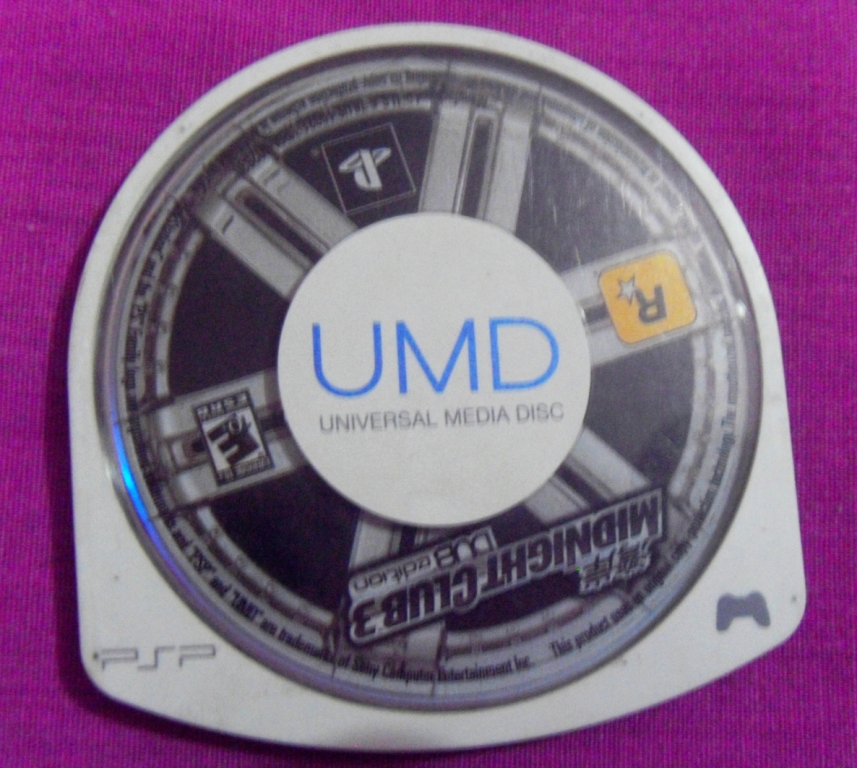 DISCO UMD PARA PSP